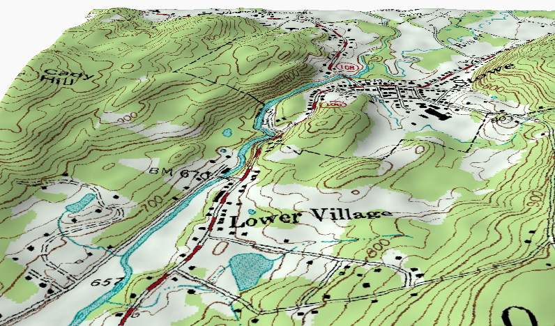 A perspective shaded-relief view of part of a topographic map sample. This perspective view illustrates how the contour lines on a Topographic map describe terrain by following the shape of the land at a constant elevation. Note: The vertical relief in this view has been exaggerated.